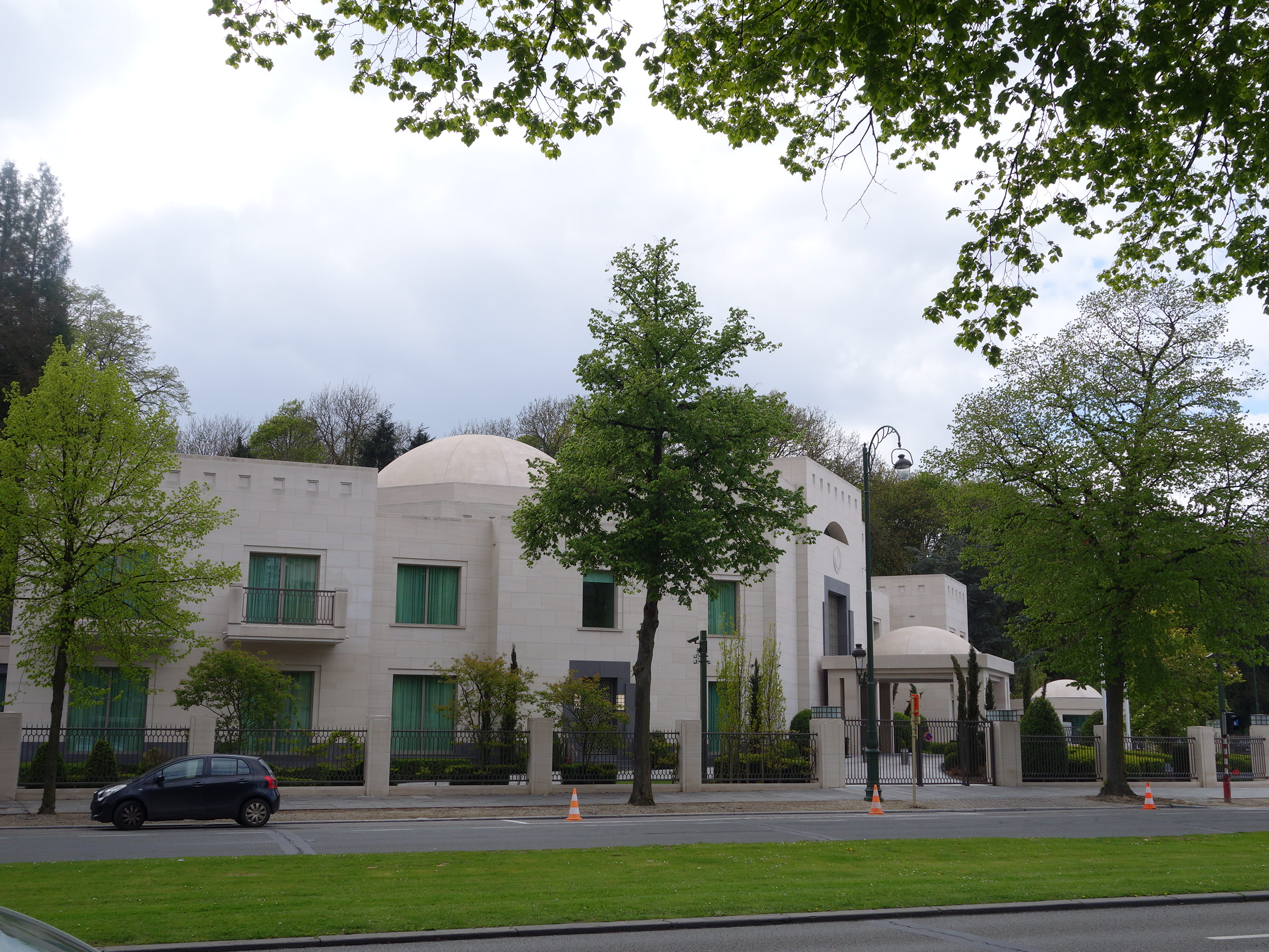 Qatari embassy, Brussels